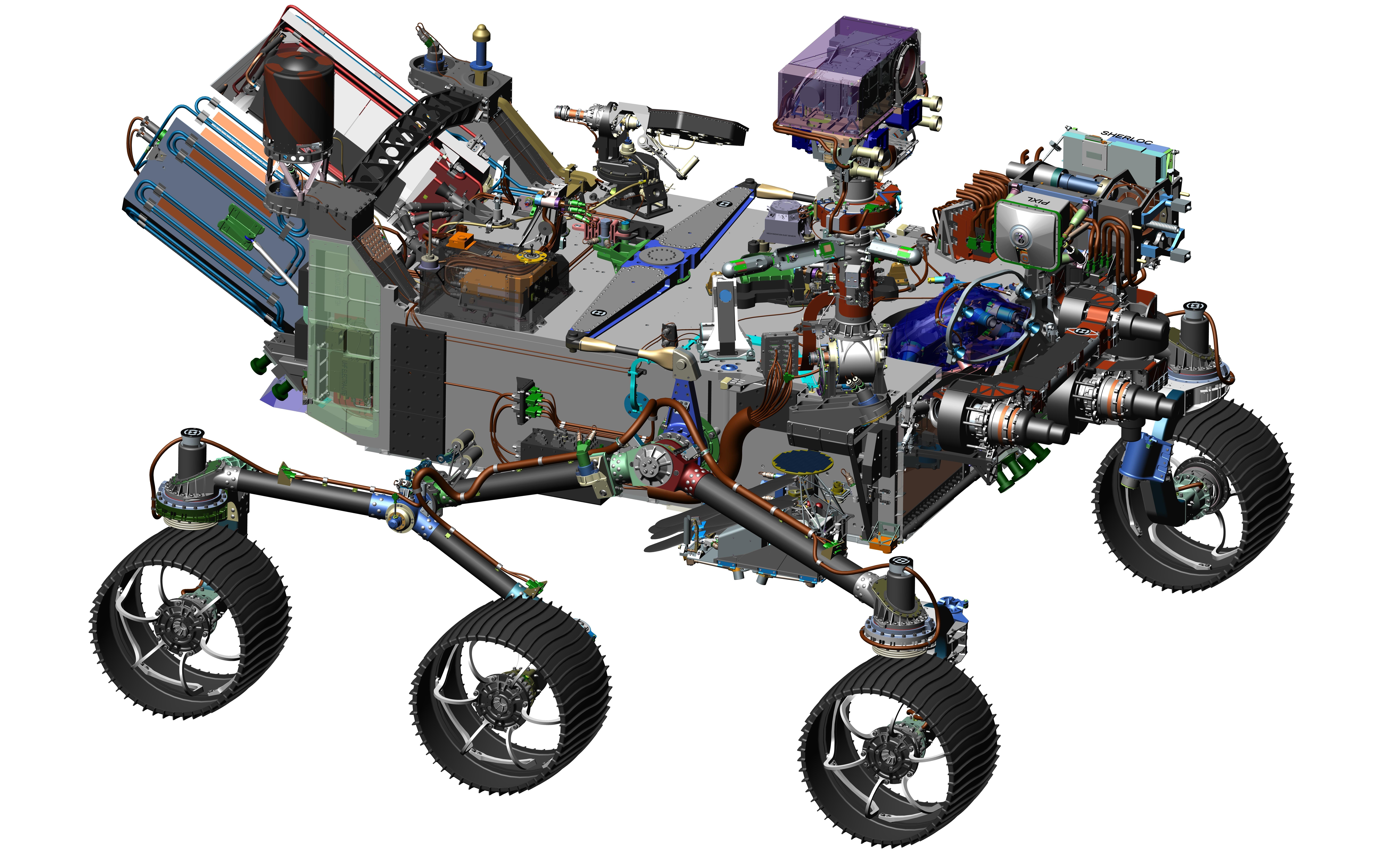 NASA's 2020 Mars rover mission will go to a region of Mars thought to have offered favorable conditions long ago for microbial life, and the rover will search for signs of past life there. It will also collect and cache samples for potential return to Earth, for many types of laboratory analysis. As a pioneering step toward how humans on Mars will use the Red Planet's natural resources, the rover will do an experiment to extract oxygen from the Martian atmosphere. This 2016 image comes from computer-assisted-design work on the 2020 rover. The design leverages many successful features of NASA's Curiosity rover, which landed on Mars in 2012, but it adds new science instruments and a sampling system to carry out the new goals for the mission.